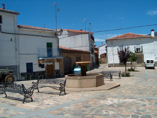 Dehesa de Hernan-Pérez y Sierra